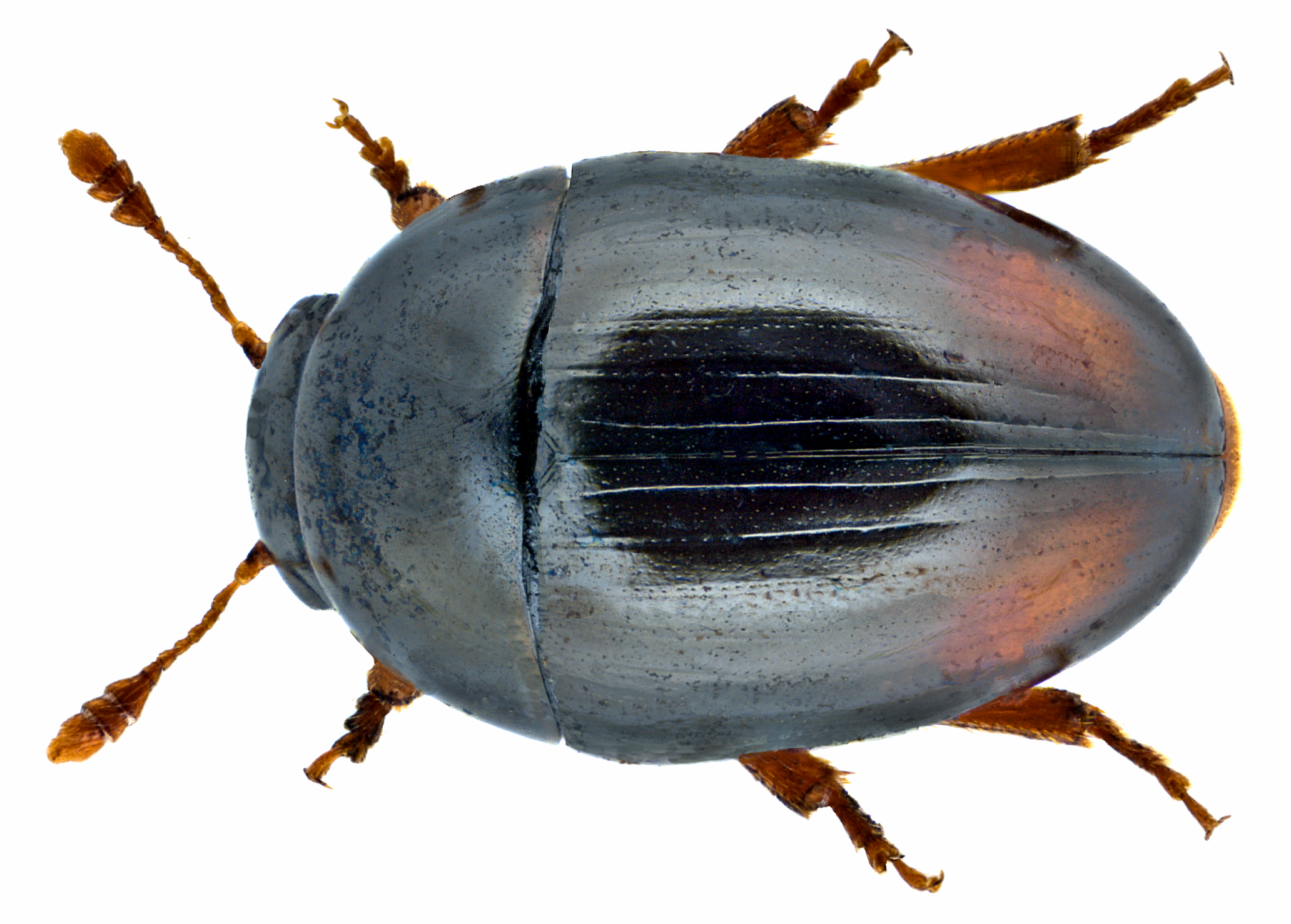 Family: Phalacridae Size: 2,6 mm (2,3 to 2,8 mm) Origin: Europe Ecology: development in the flower heads of Compositae Location: Helvetia, Graubuenden, Ilanz, Schluein, 650 m leg.det. U.Schmidt, 6.VII.2004 Photo: U.Schmidt, 2014